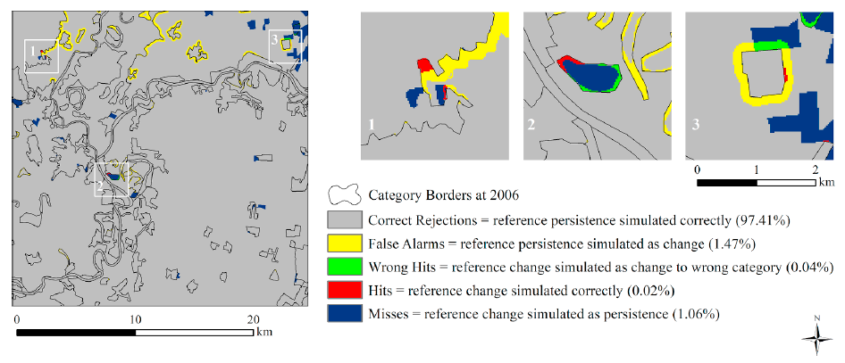 Example of a 3-map comparison as a method of land change model evaluation.